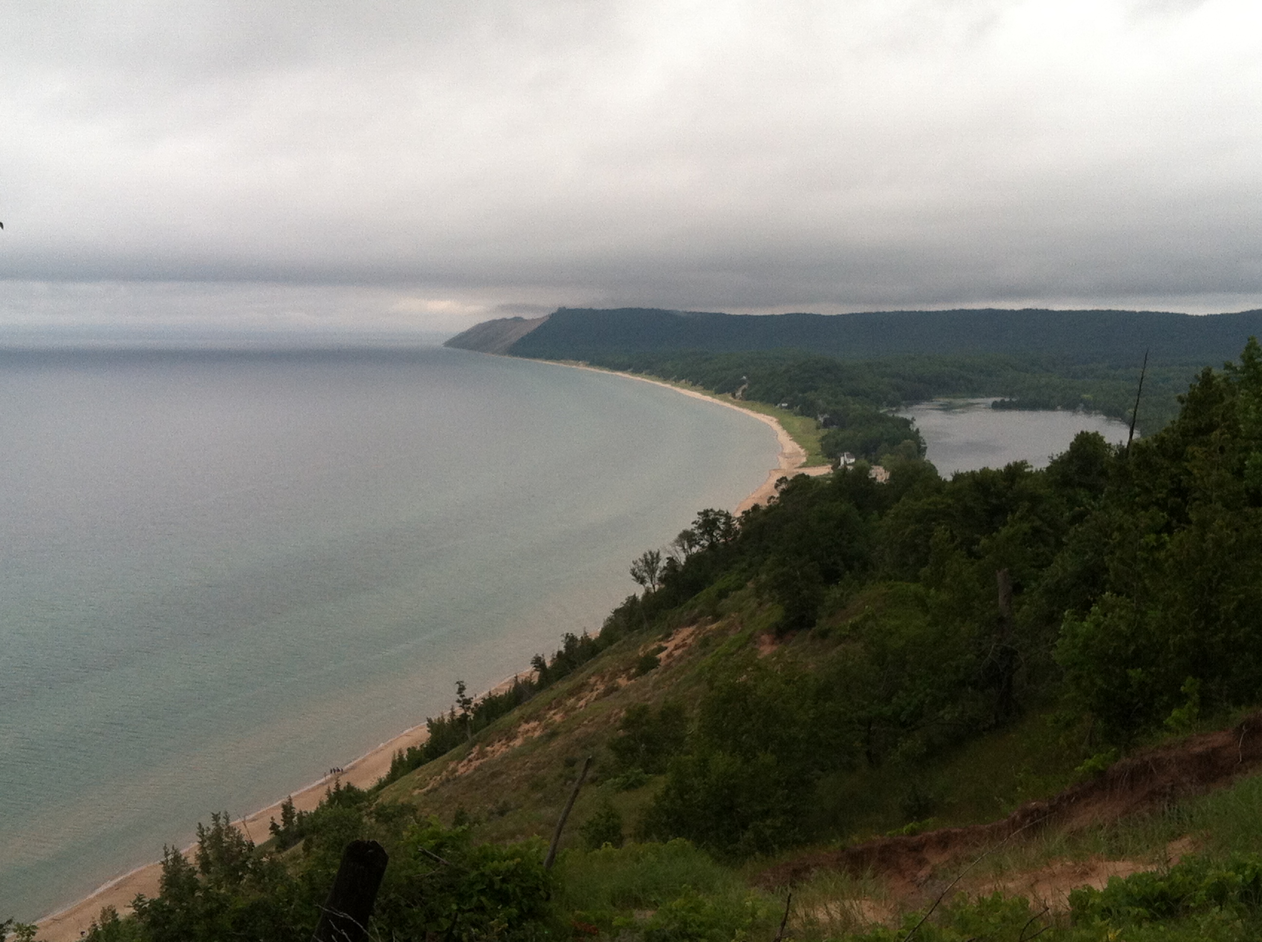 View of Empire from the Empire Bluff Trail